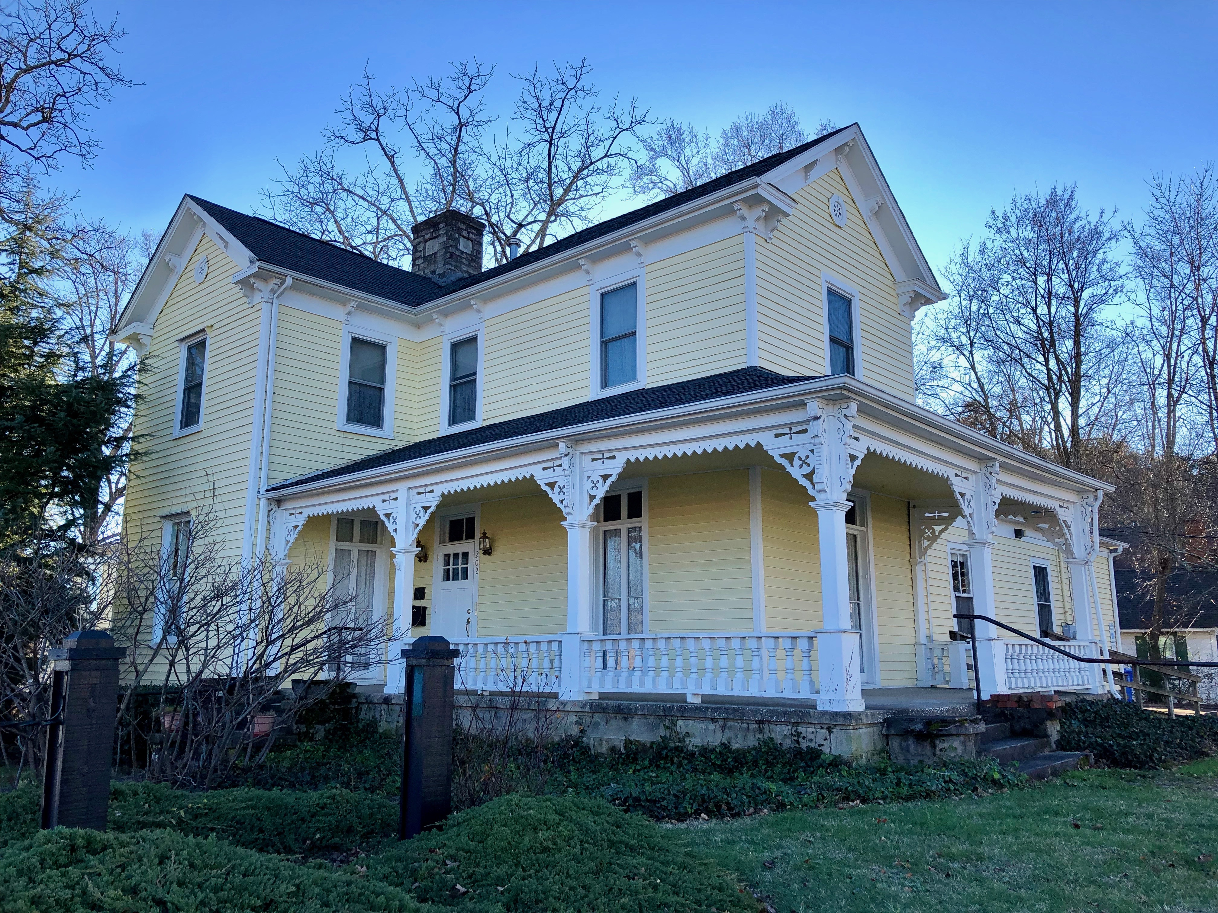 This is the Reese House, constructed circa 1885 in Hendersonville, North Carolina, listed on the National Register of Historic Places in 1995.